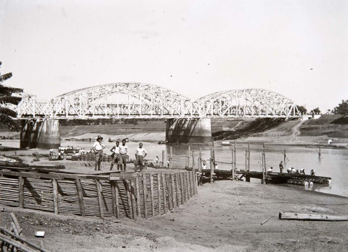 Militairy engineers building a pontoon bridge beside the railway bridge across the Citarum river, Tanjungpura